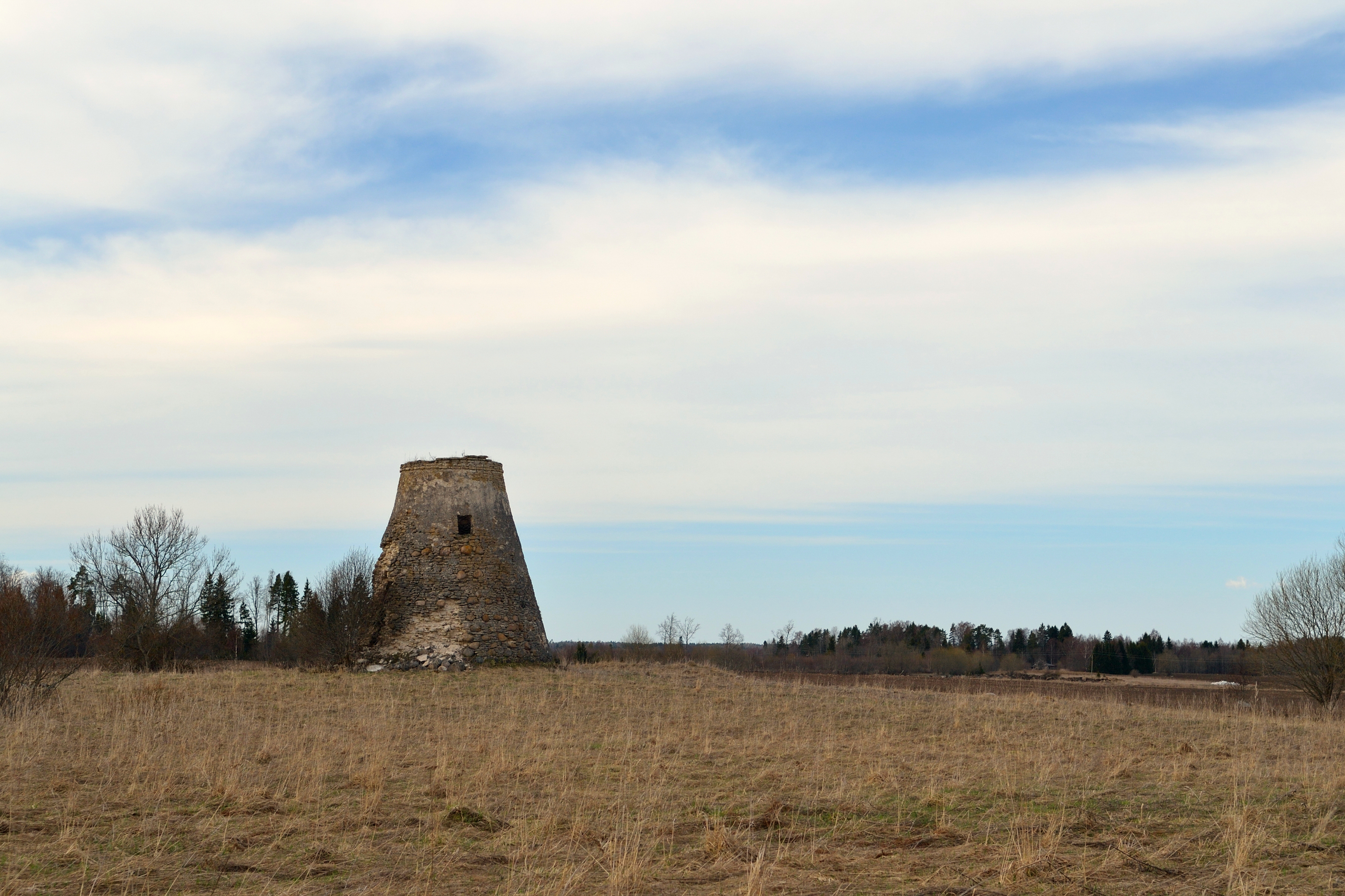 Aavere manor windmill ruins